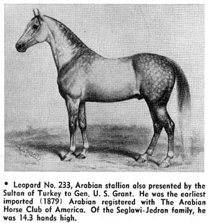 Picture of Leopard, imported 1879. Arabian stallion presented by the Sultan of Turkey to General Ulysses S. Grant. Earliest imported horse registered with the Arabian Horse Club of America.